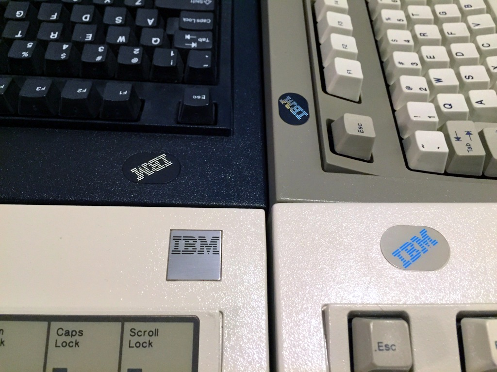 A comparison between different logos from different releases of Model M keyboards.